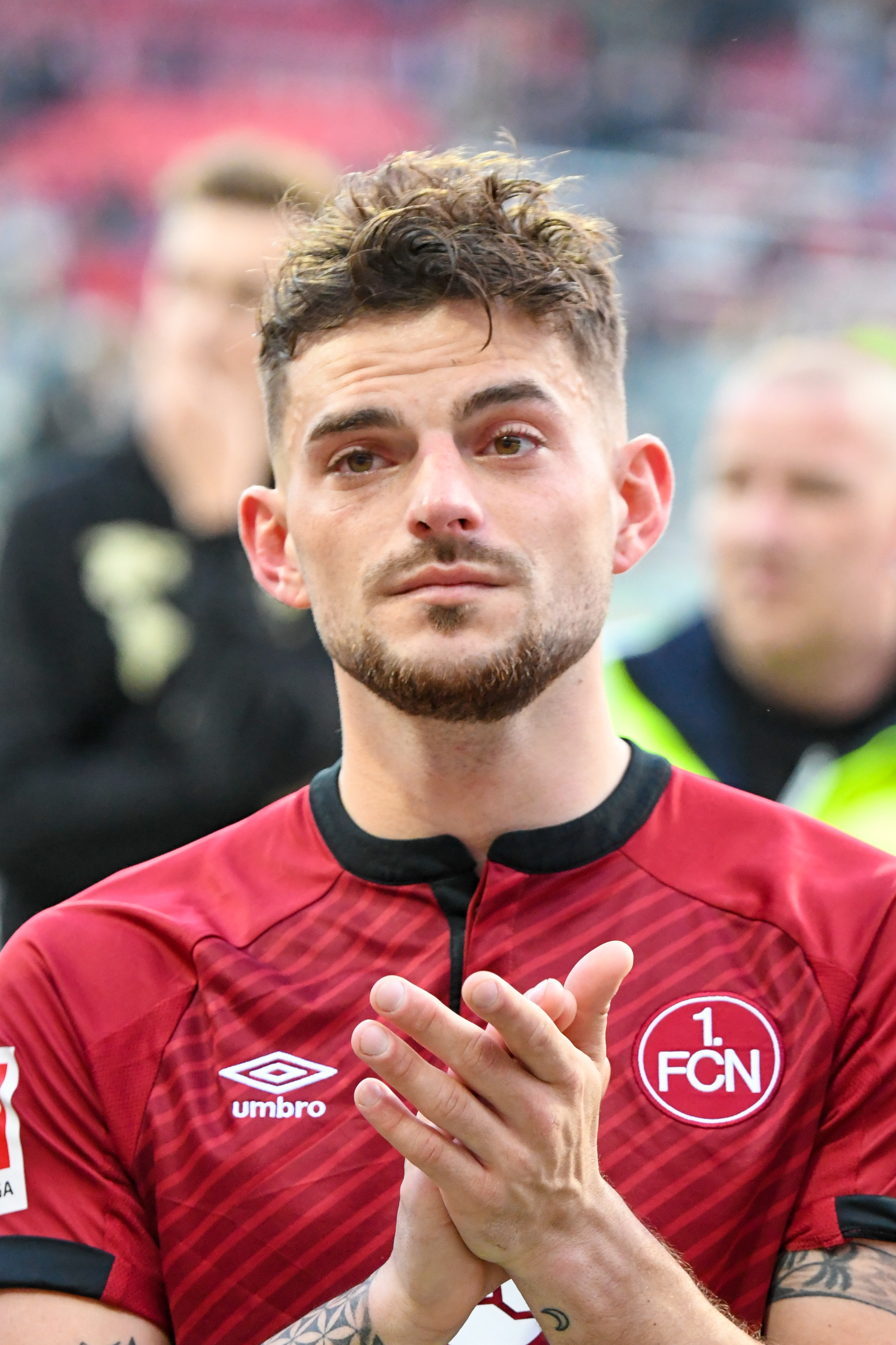 German Soccer League Season 2018/19, 31st match day 1. FC Nürnberg vs. 1. FC Bayern München. Picture shows: Tim Leibold of Nuremberg.